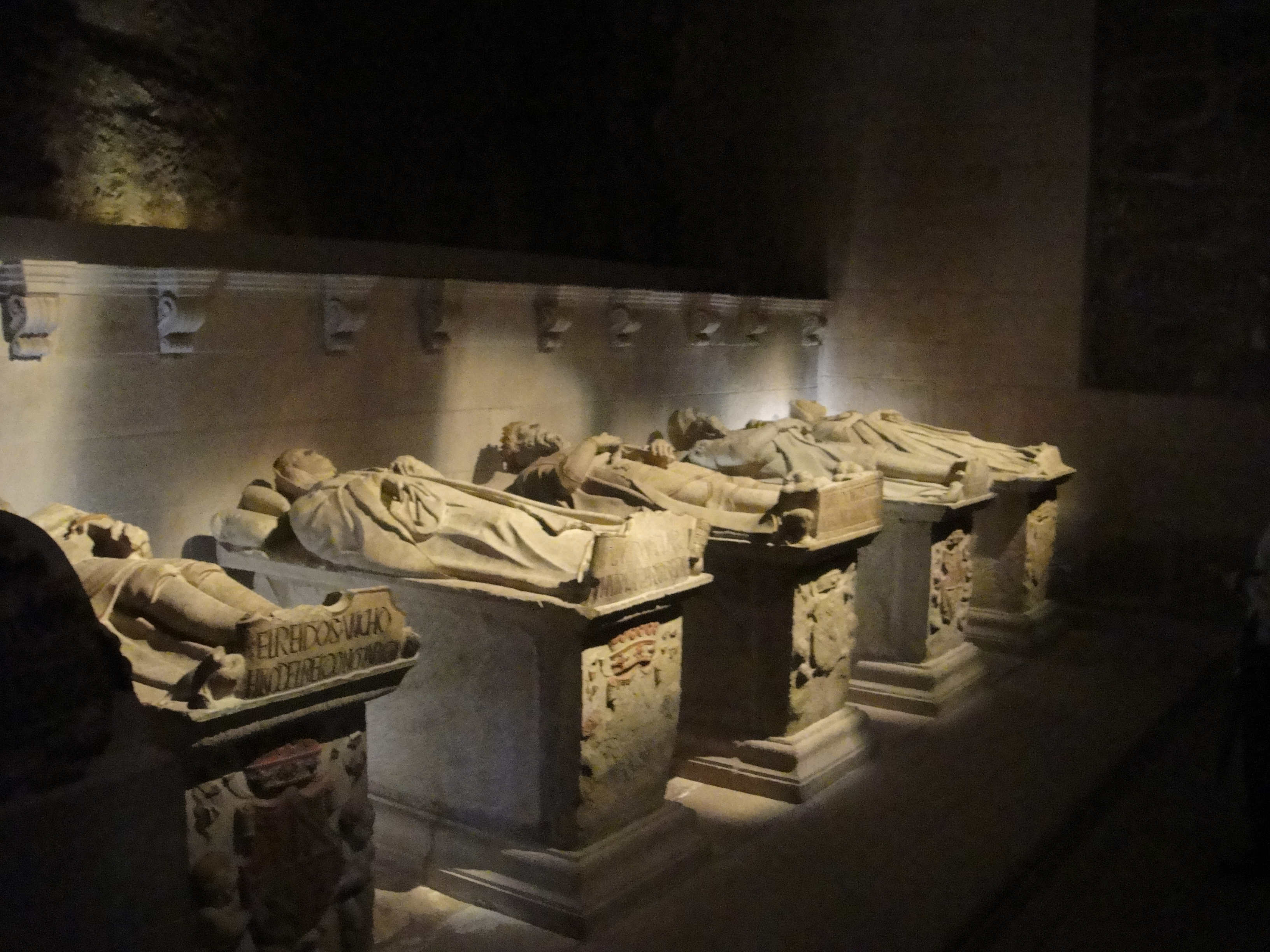 Tombs of the kings Sancho VI of Navarre and Bermudo III of León. Monastery of Santa María La Real of Nájera, in Spain.